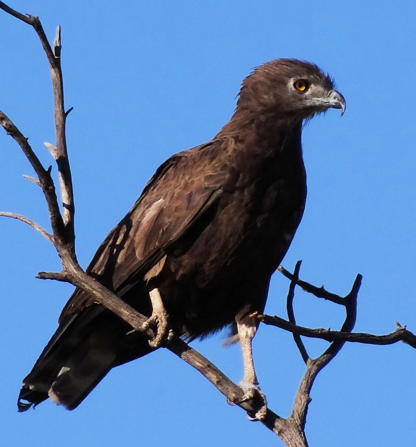 A Brown Snake Eagle photographed in the Masaai Mara National Park, Kenya, in 2012.